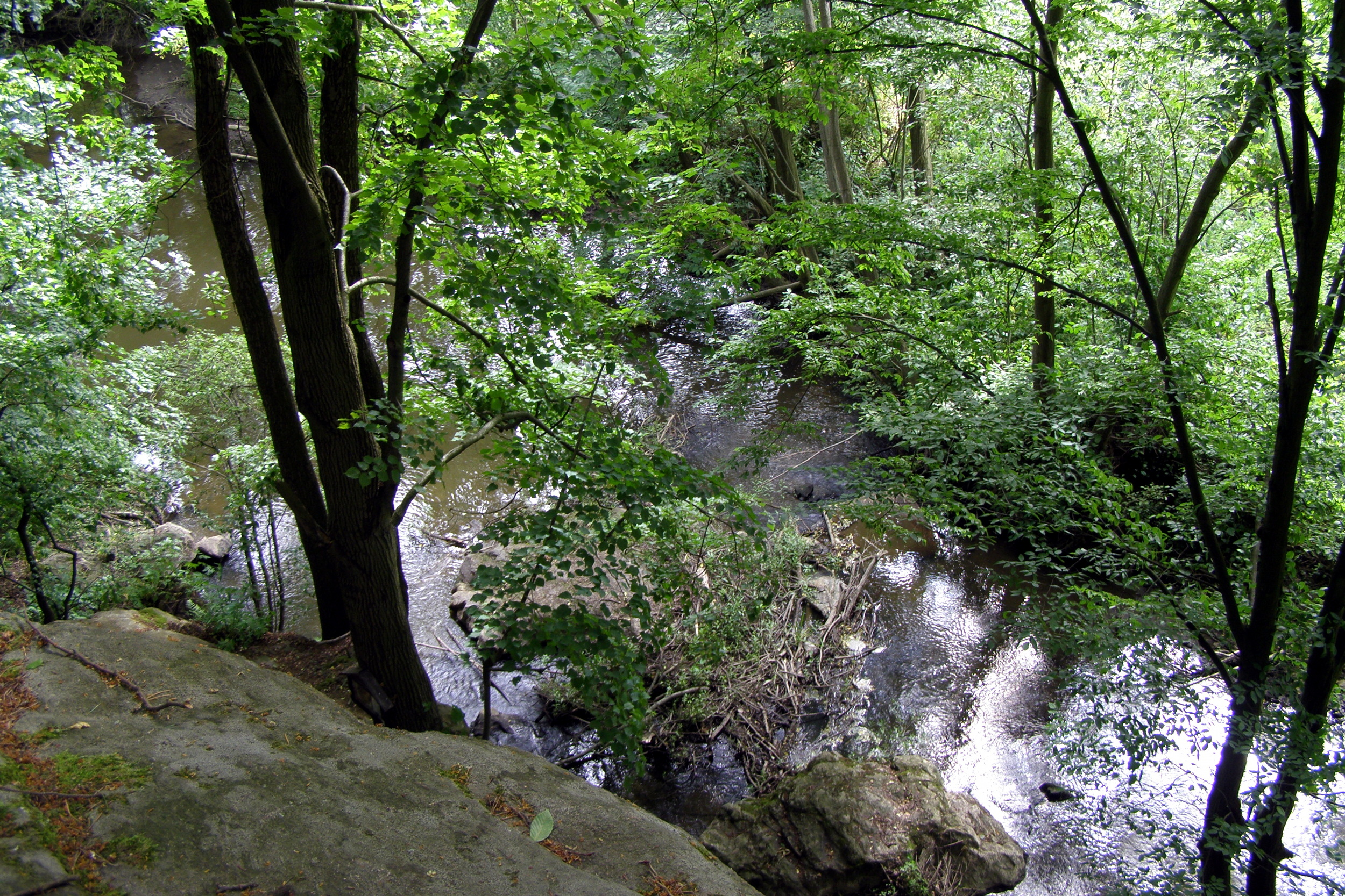 Příštpo. Justýnka Rock. Natural park Rokytná